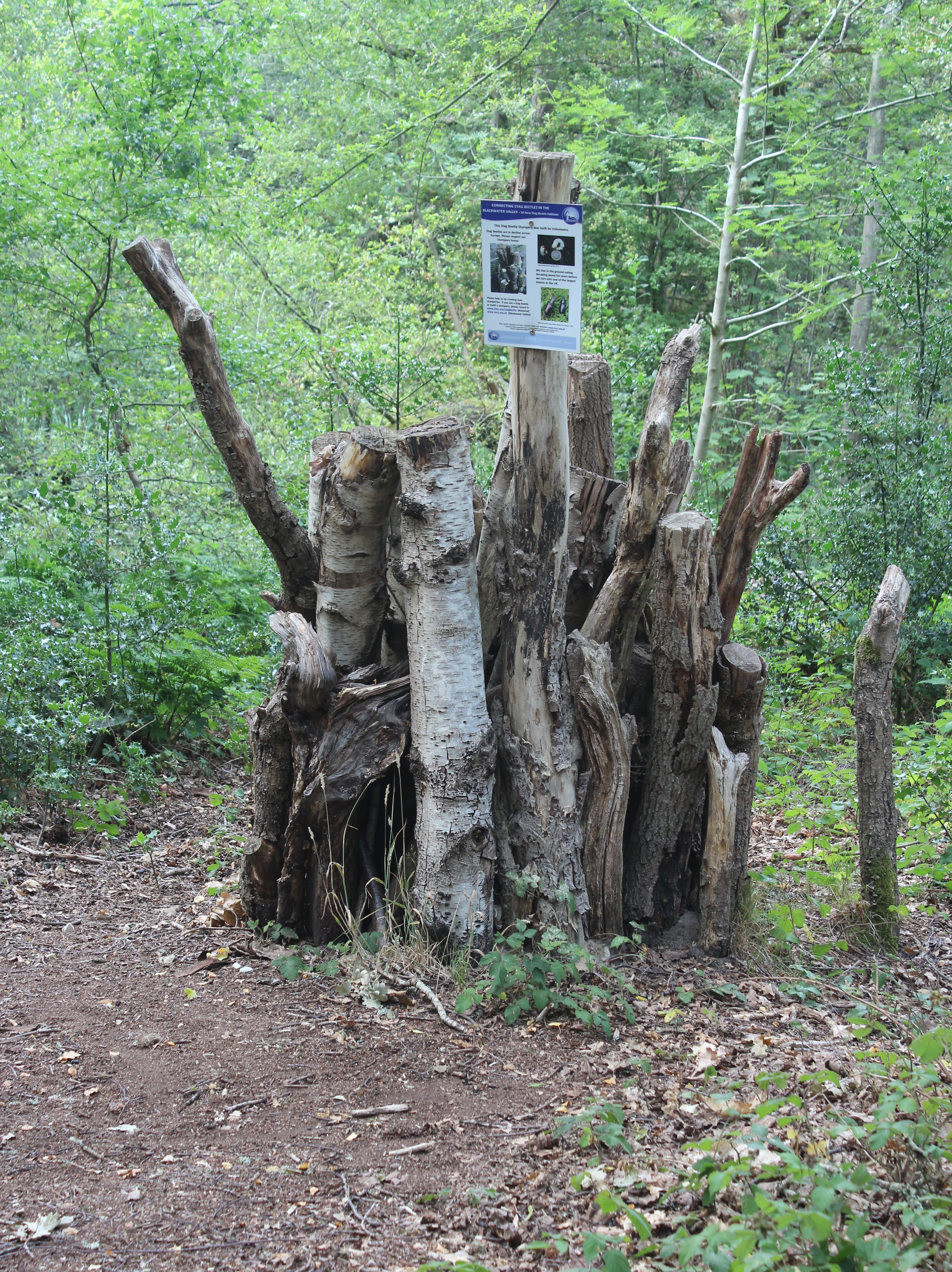 Stag beetle (Lucanus cervus) stumpery in the Dukes Wood, Wellensly Woodlands, close to the Basingstoke Canal, west of Aldershot. The stumpery is a pyramid of half-buried vertical logs built around a tree stump to provide an enviroment of rotting wood - the ideal habitat for a stag beetle nest. This stumpery is one of many that have been built in the south of England as part of a nature conservation project to try to check the decline of this insect.